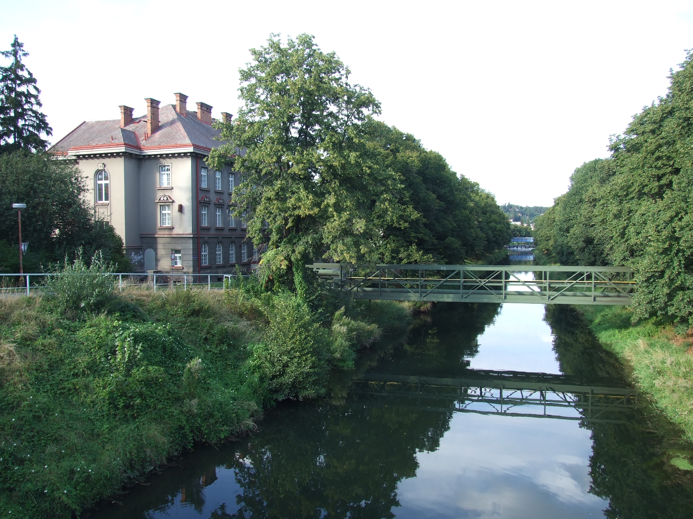 Metuje river